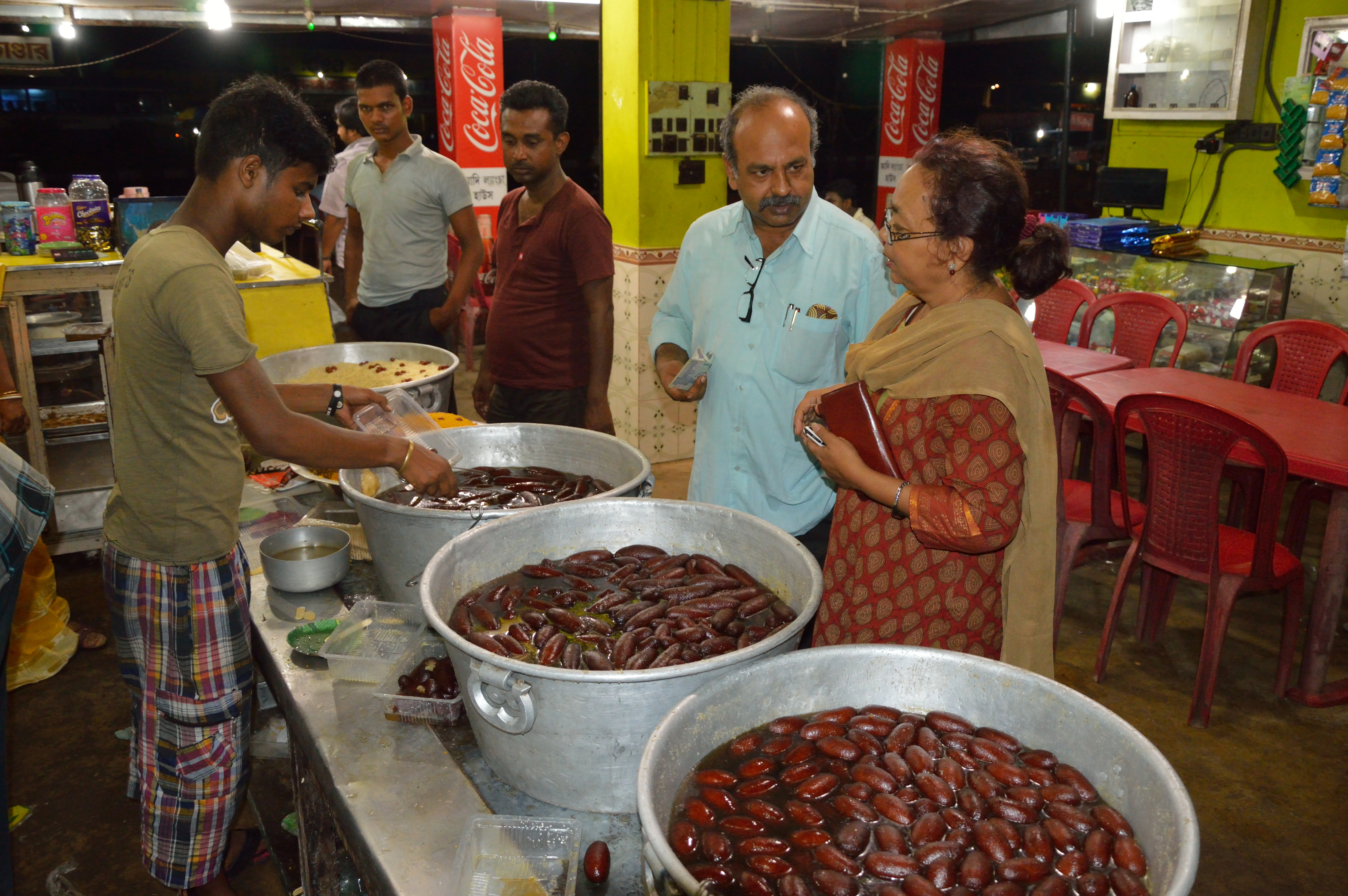 Photographed at the 'Adi Langcha House' on 'Asian Highway', Saktigarh, Bardhaman.